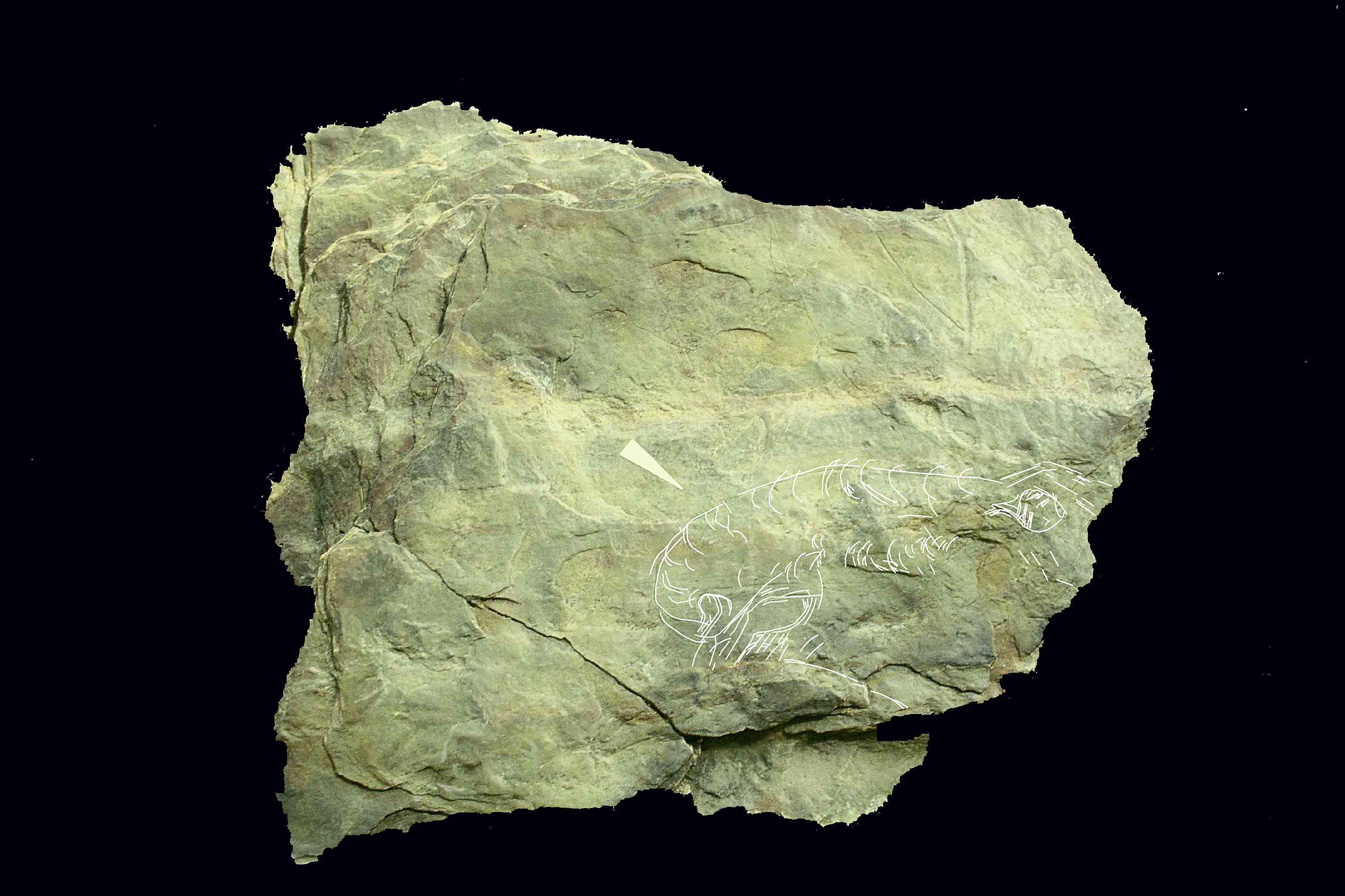 Upper paleolithic engraving of a saiga shape from Gönnersdorf/Germany. (The outline was retraced.)